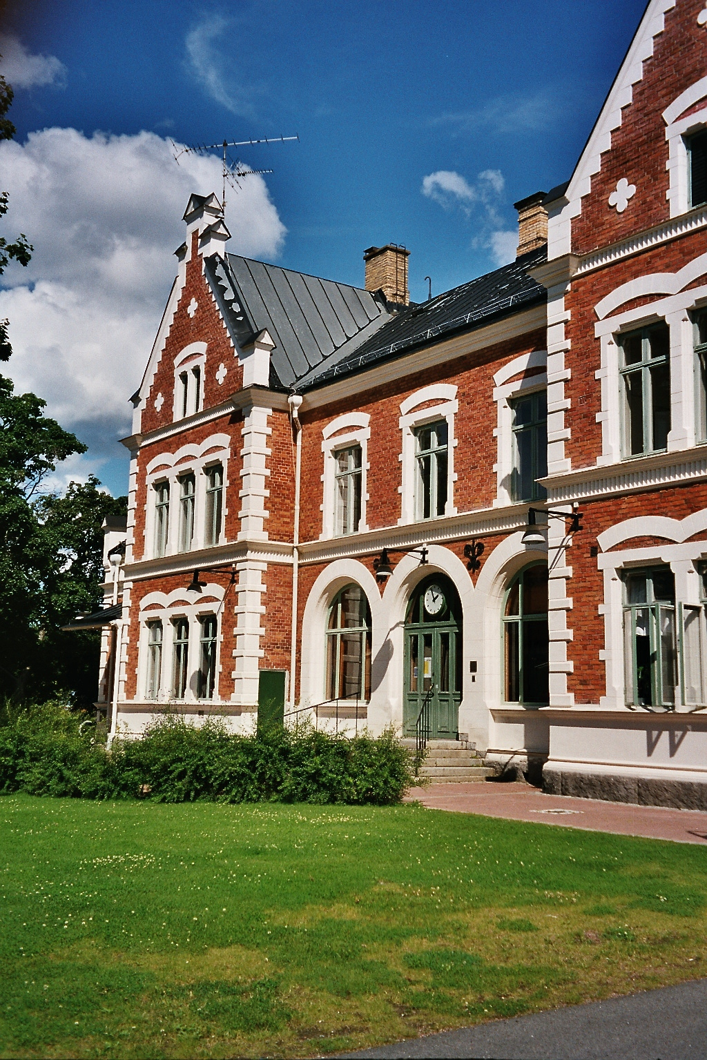 Railway station Vansbro of Inlandsbanan.